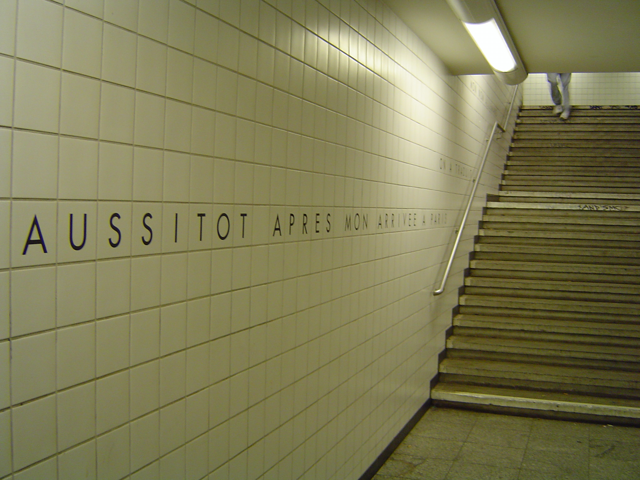 French phrases on a wall in the Westhafen subway station, Berlin